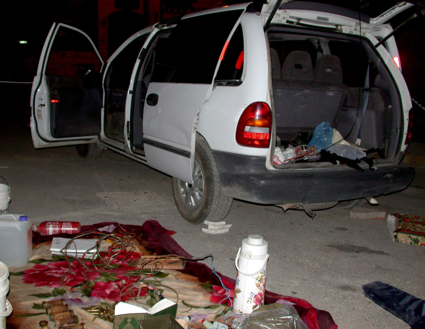 06/11/2002 IDF forces operating in Ramallah caught two car bombs laden with explosive devices and tens of kilograms of explosive substances. The Israel Defense Forces Facebook The Israel Defense Forces blog Follow us on Twitter